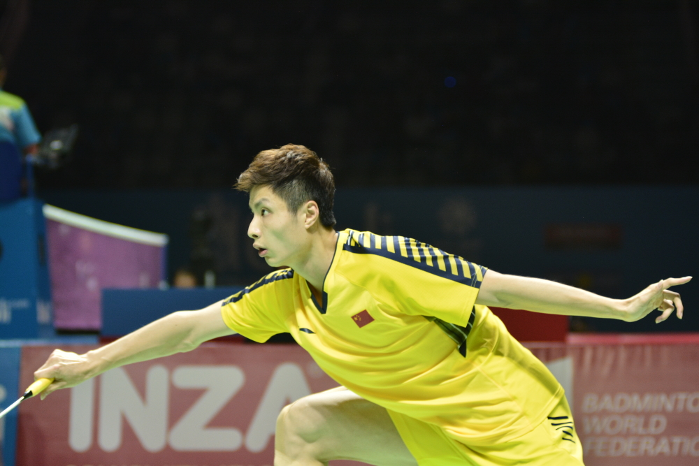 Shi Yuqi in action at Indonesia Open 2018